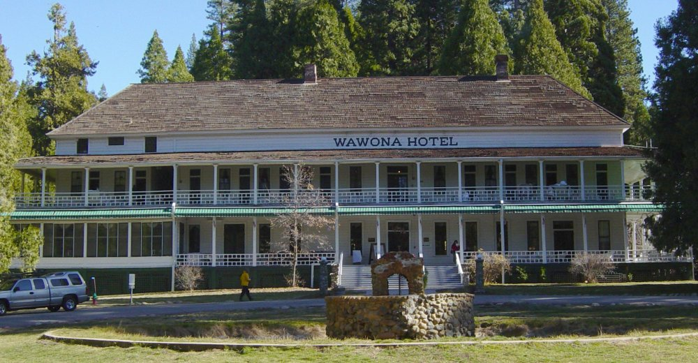 Photo taken by Daniel Mayer in November 2004.